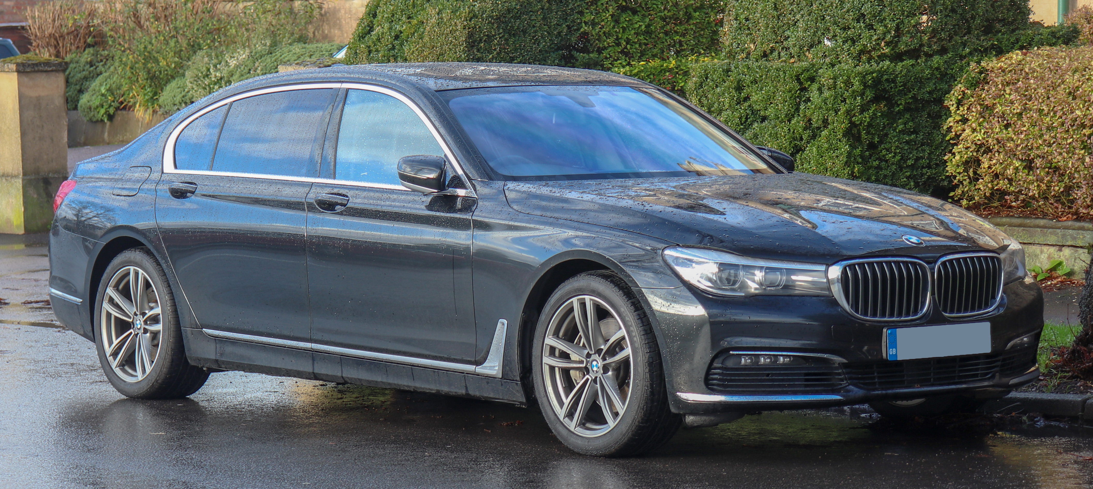 2016 BMW 730ld Automatic 3.0 Front